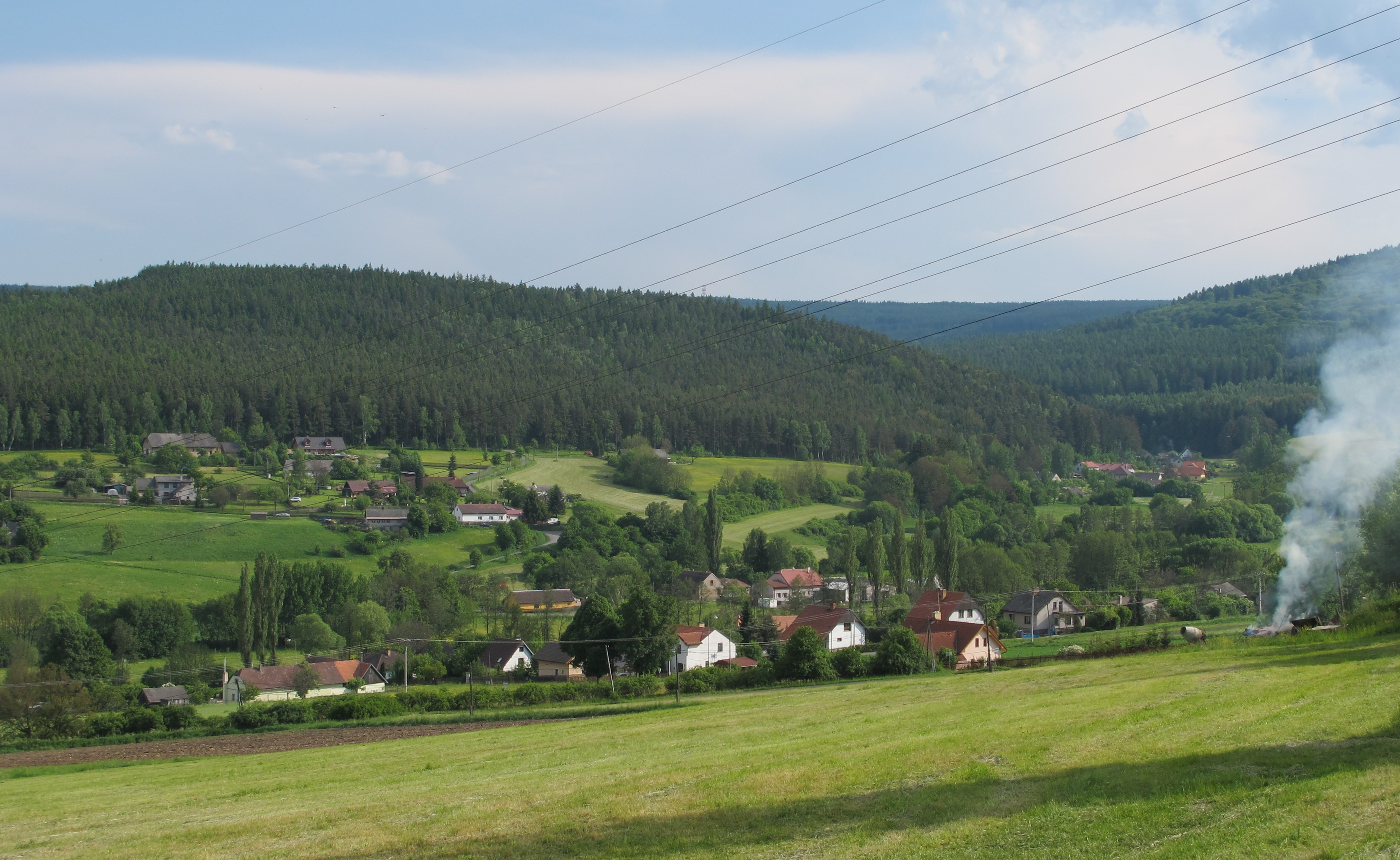 Ohrazenice in Příbram District